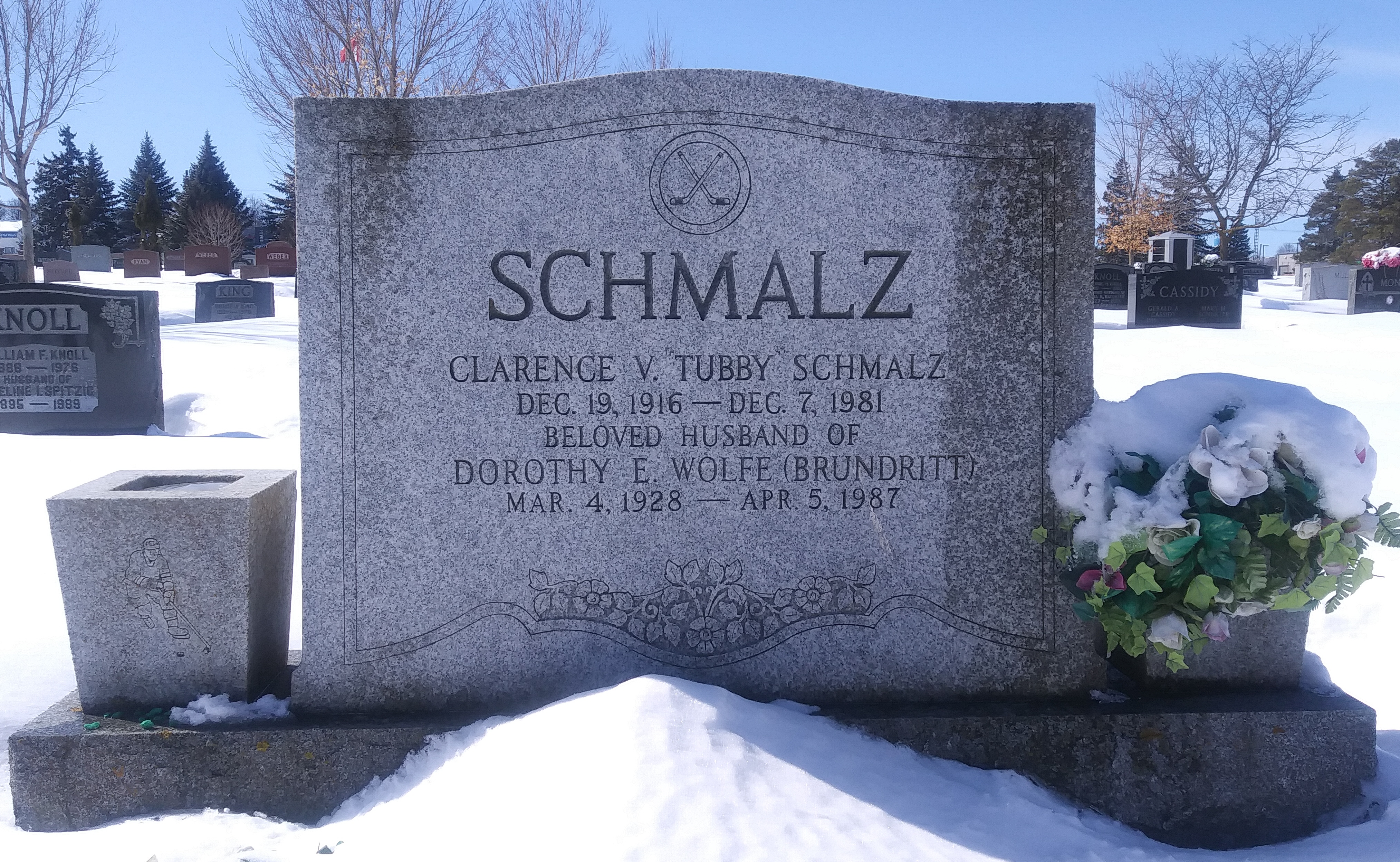 Clarence Vincent Schmalz gravestone